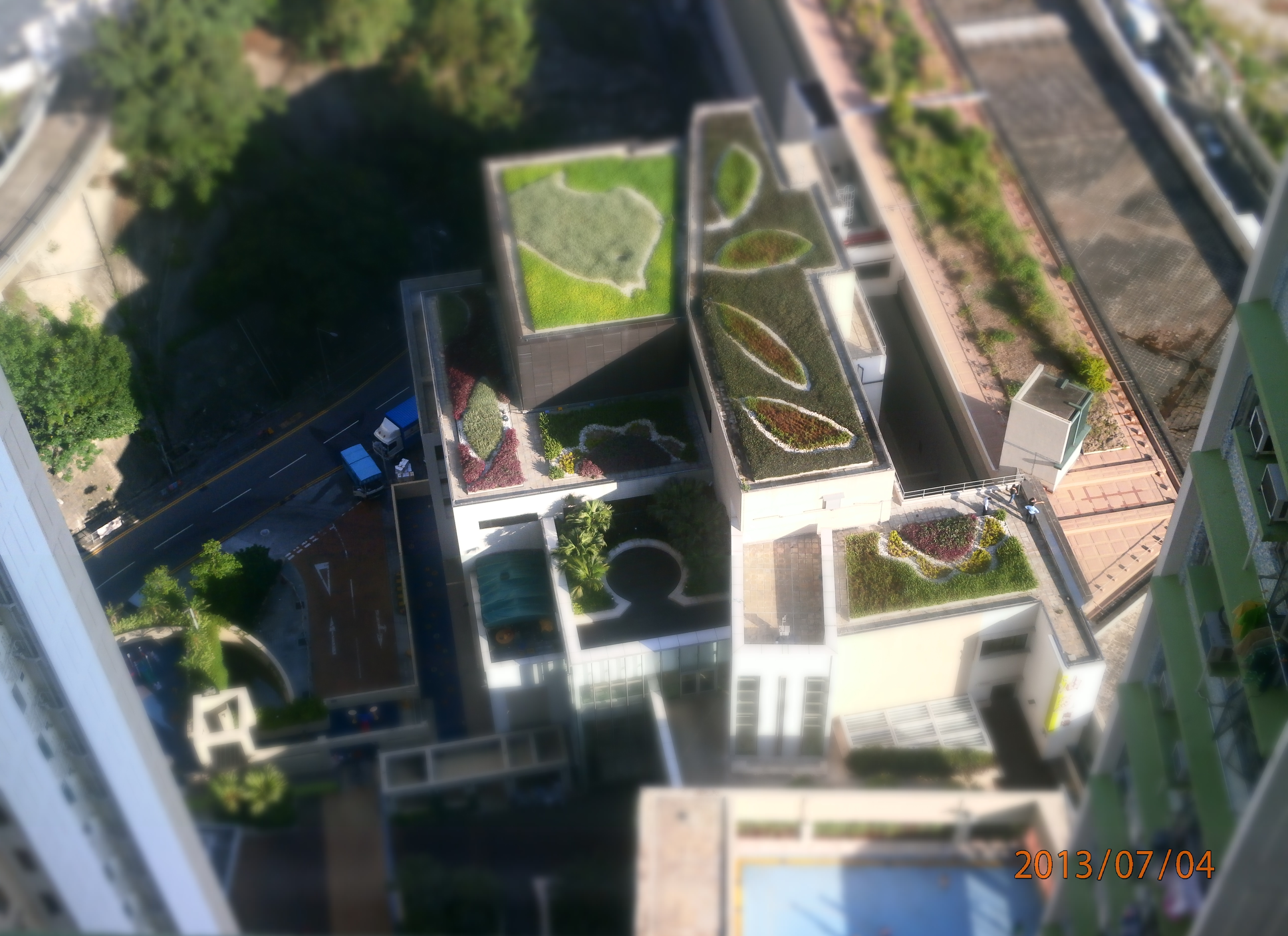 Yau Lai Shopping Centre Greening on roof (shoot in 2013)